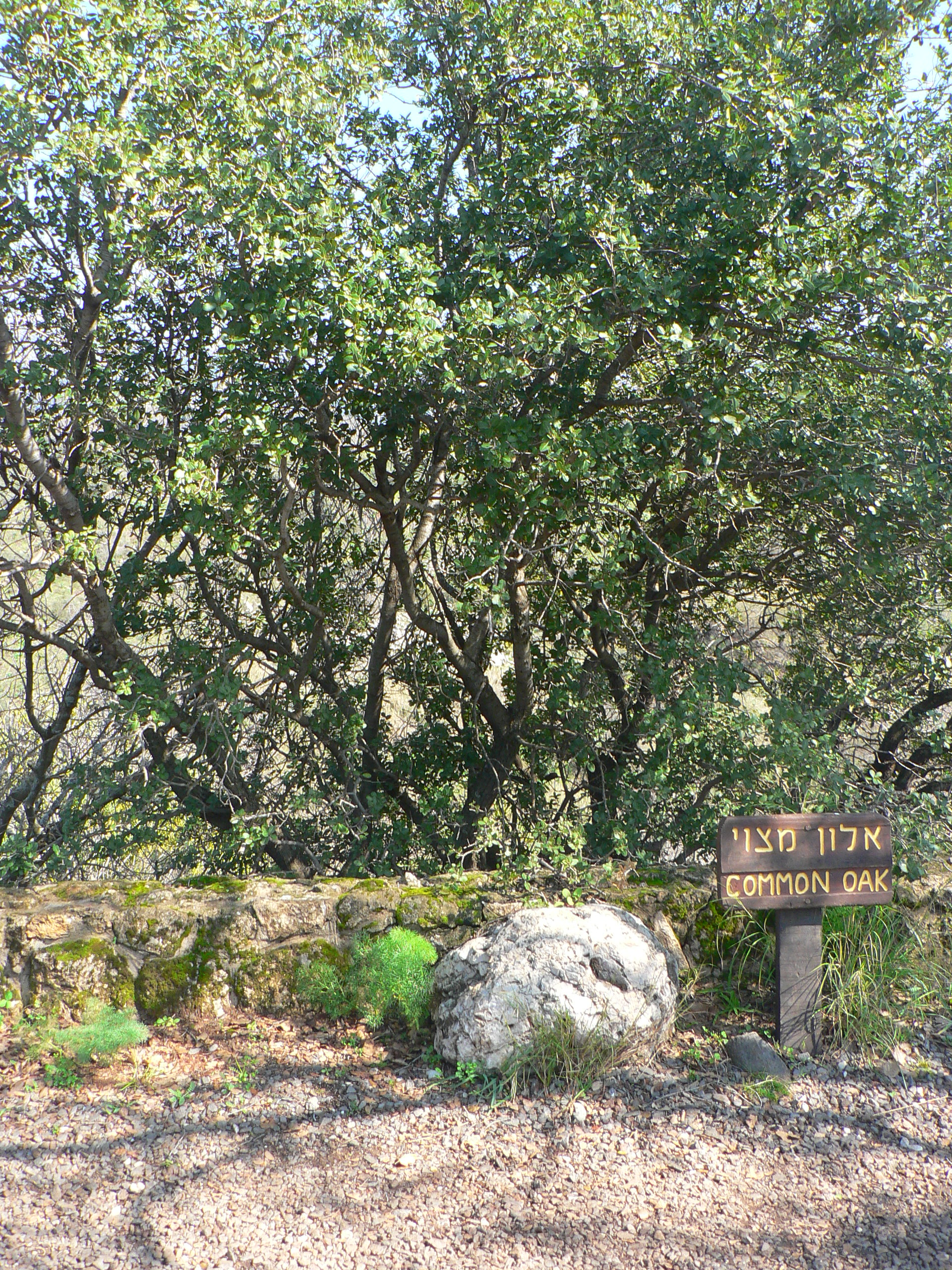 Quercus calliprinos